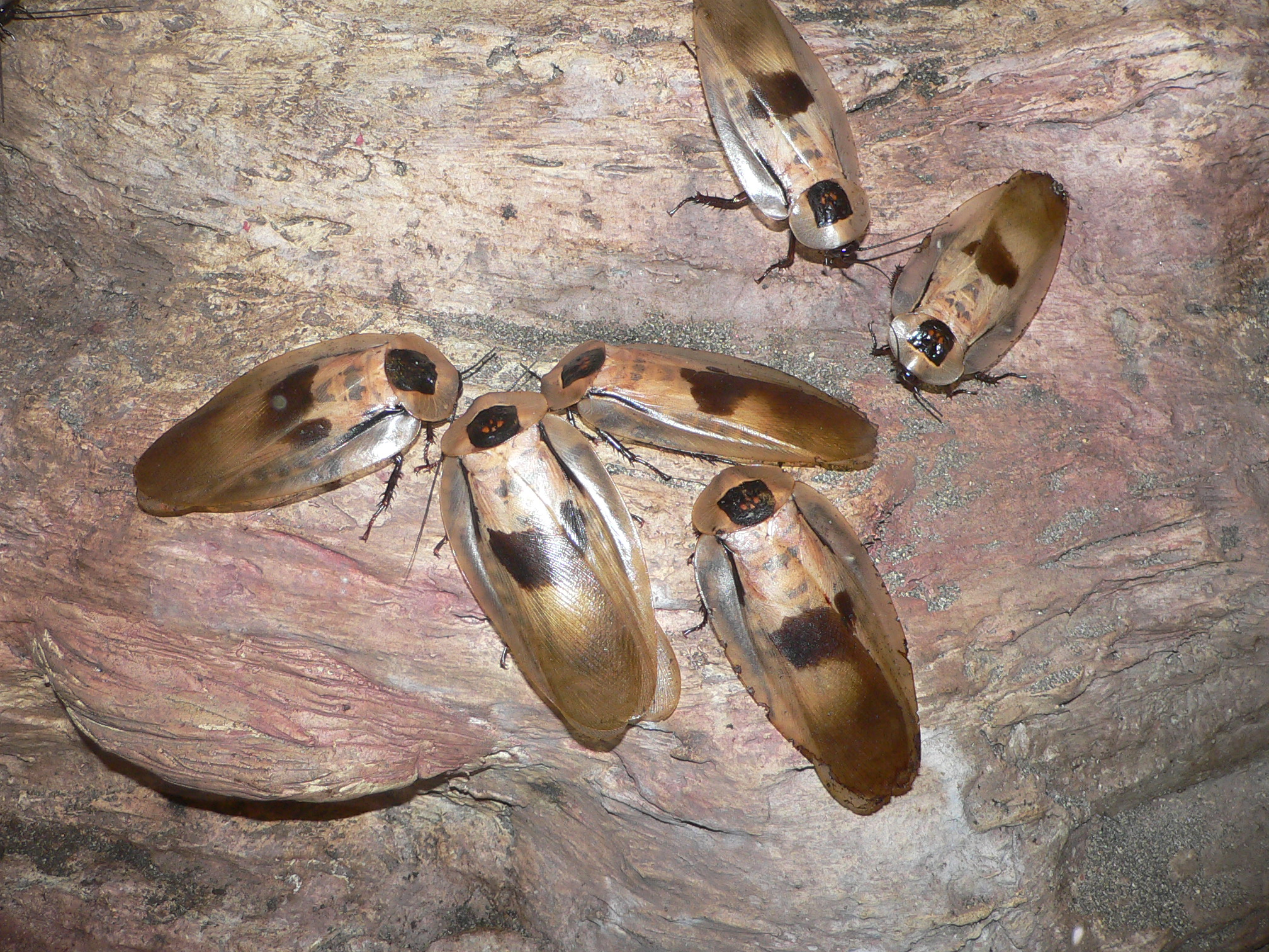 Blaberus giganteus Pictures taken by myself at the Audubon Insectarium